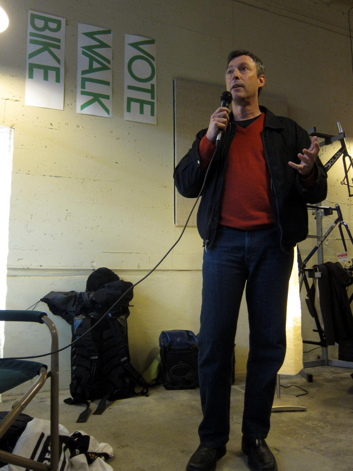 at the Bike Walk Vote launch party, December 2011